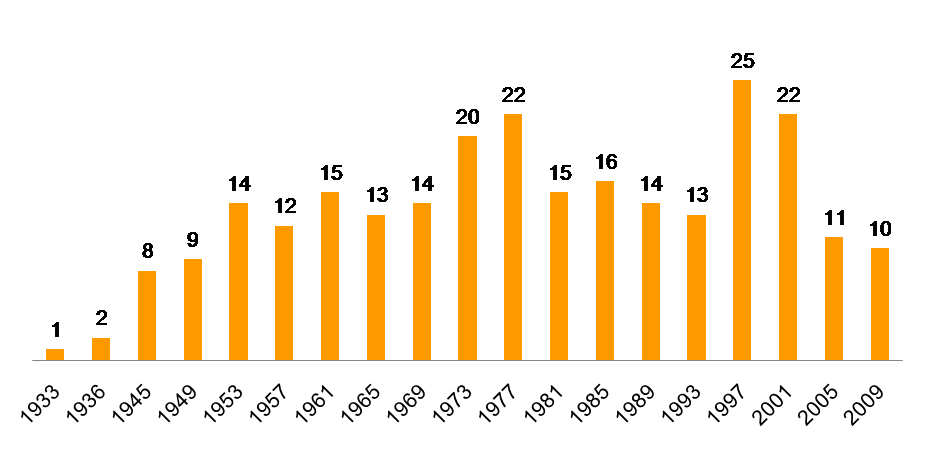 Seats of the Norwegian Christian Democratic Party since 1933.